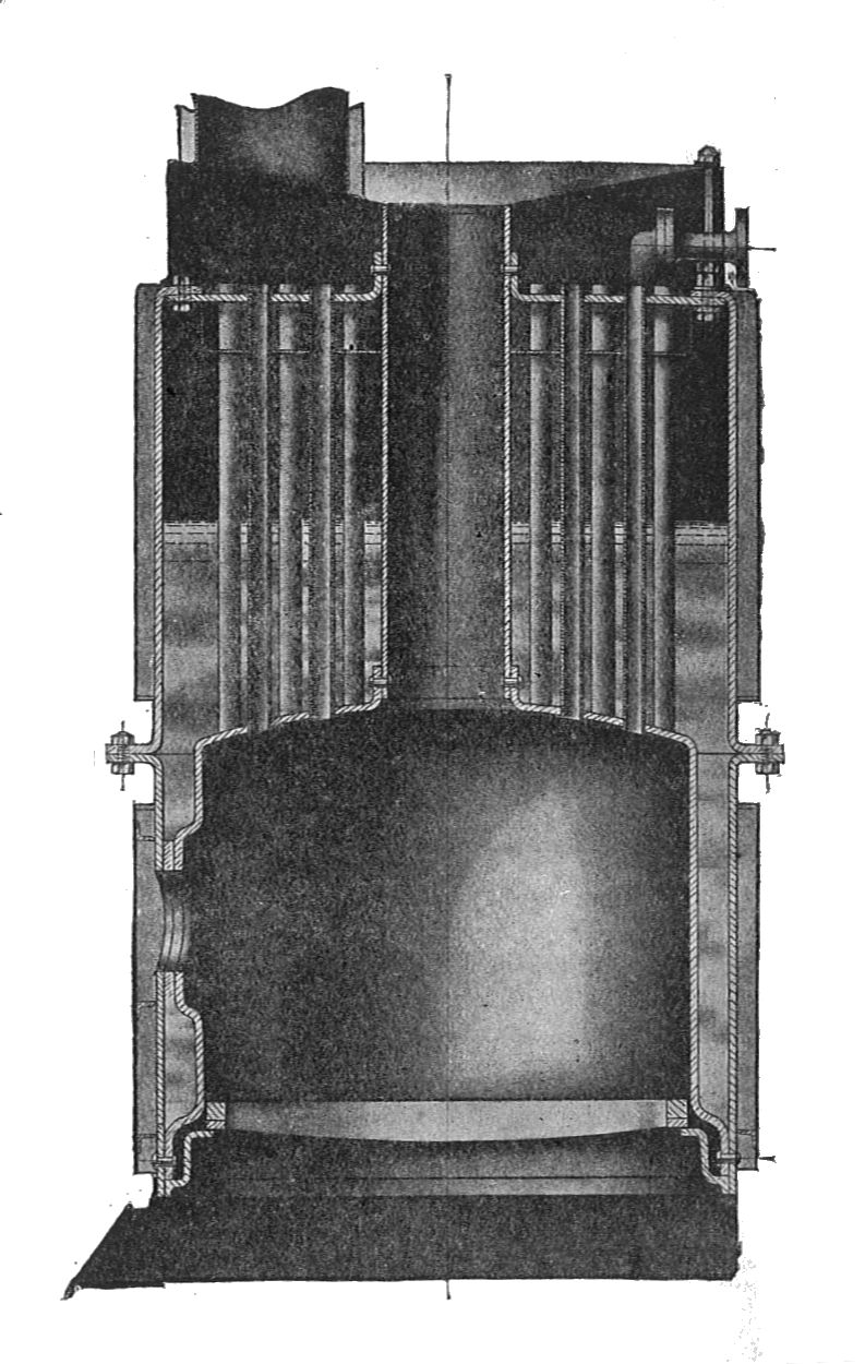 Fig. 236 Leyland steam waggon boiler Section through the vertical boiler of a Leyland steam waggon.